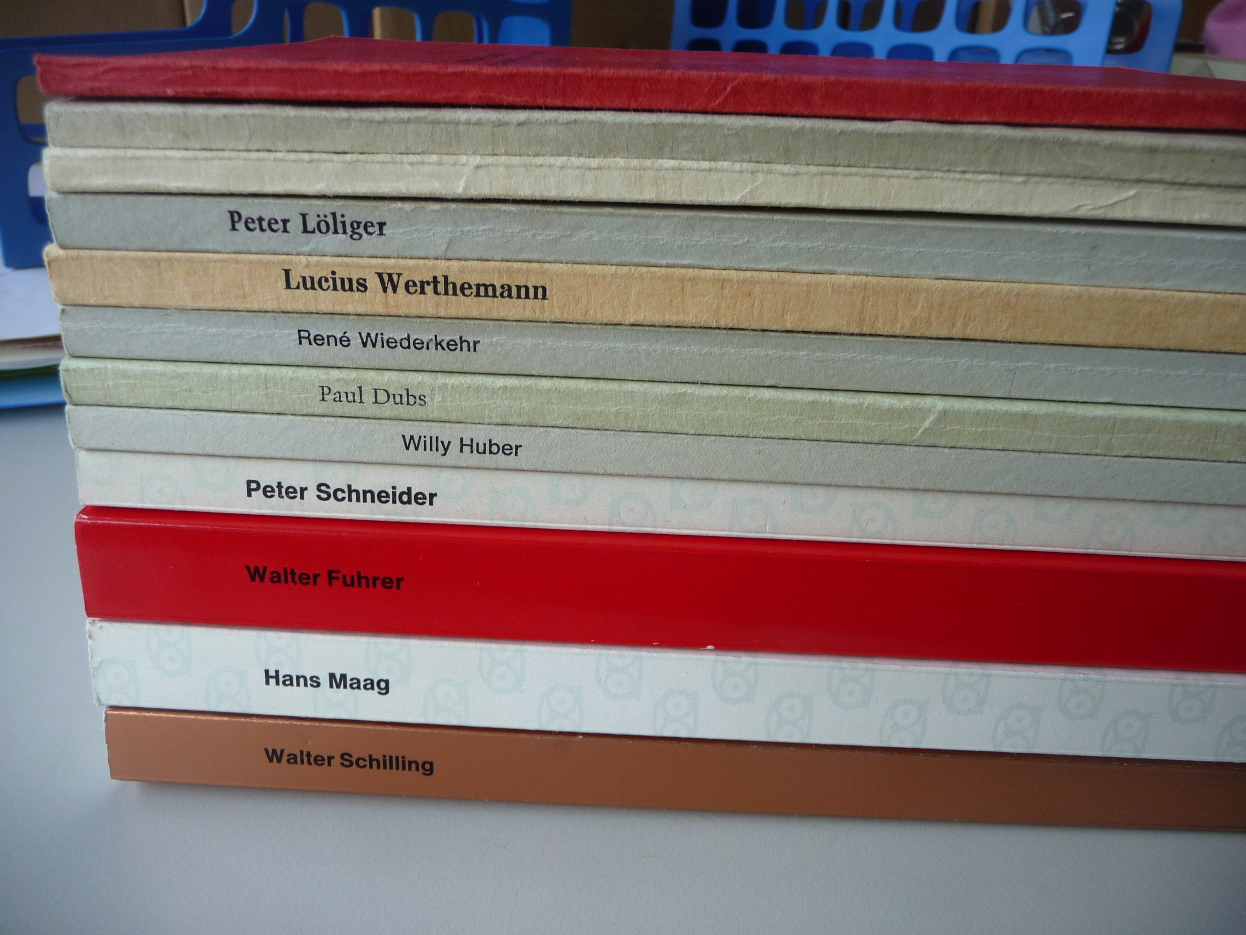 Ph.D. theses of graduate students involved in the total syntheses of vitamin B12 by A. Eschenmoser et al. at ETH Zurich (stacked in chronological order, from top to bottom: Jost Wild, Urs Locher, Alexander Wick, following names shown on spine)